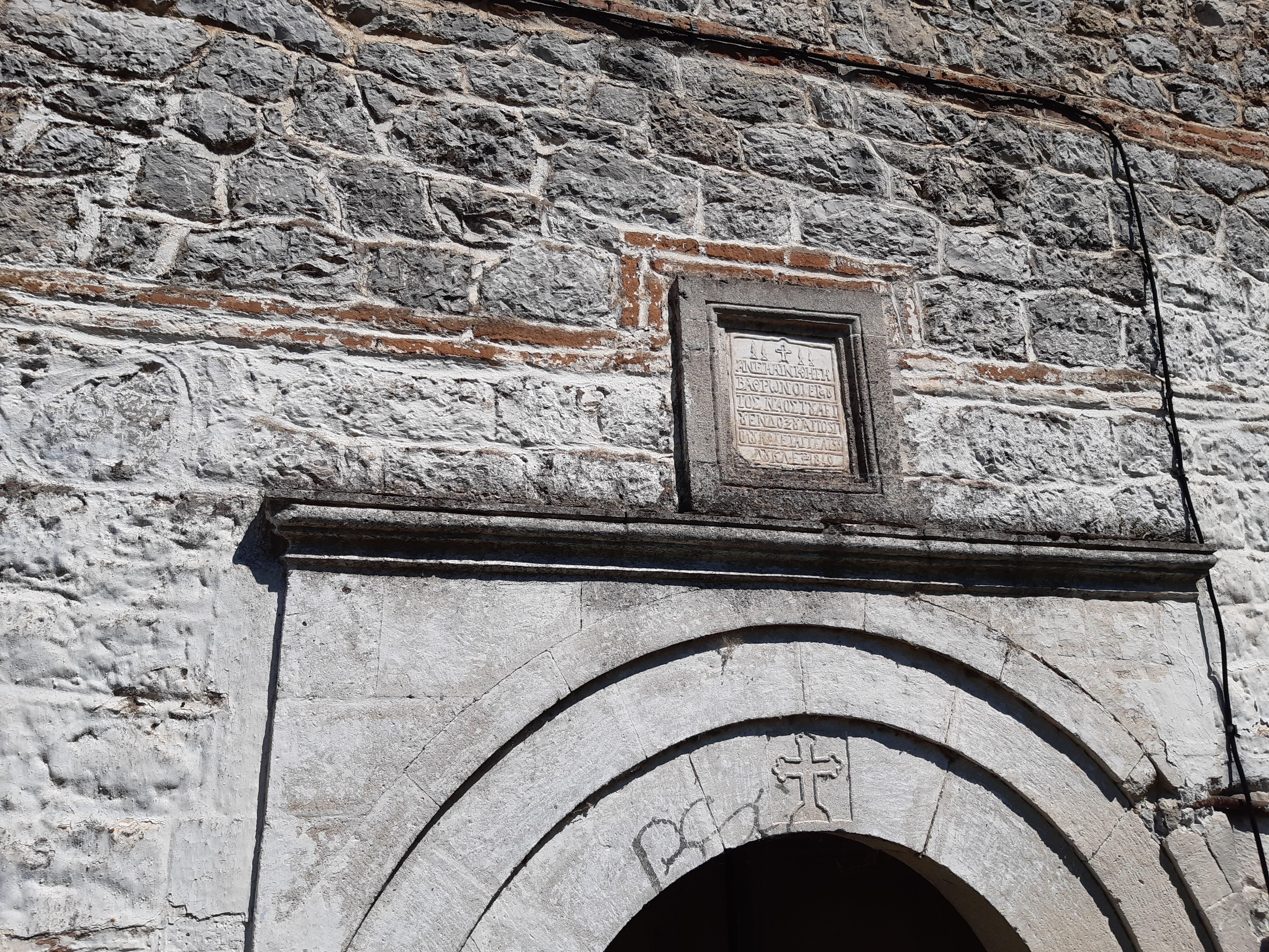 Saint Luke Church in Kastoria in August 2020